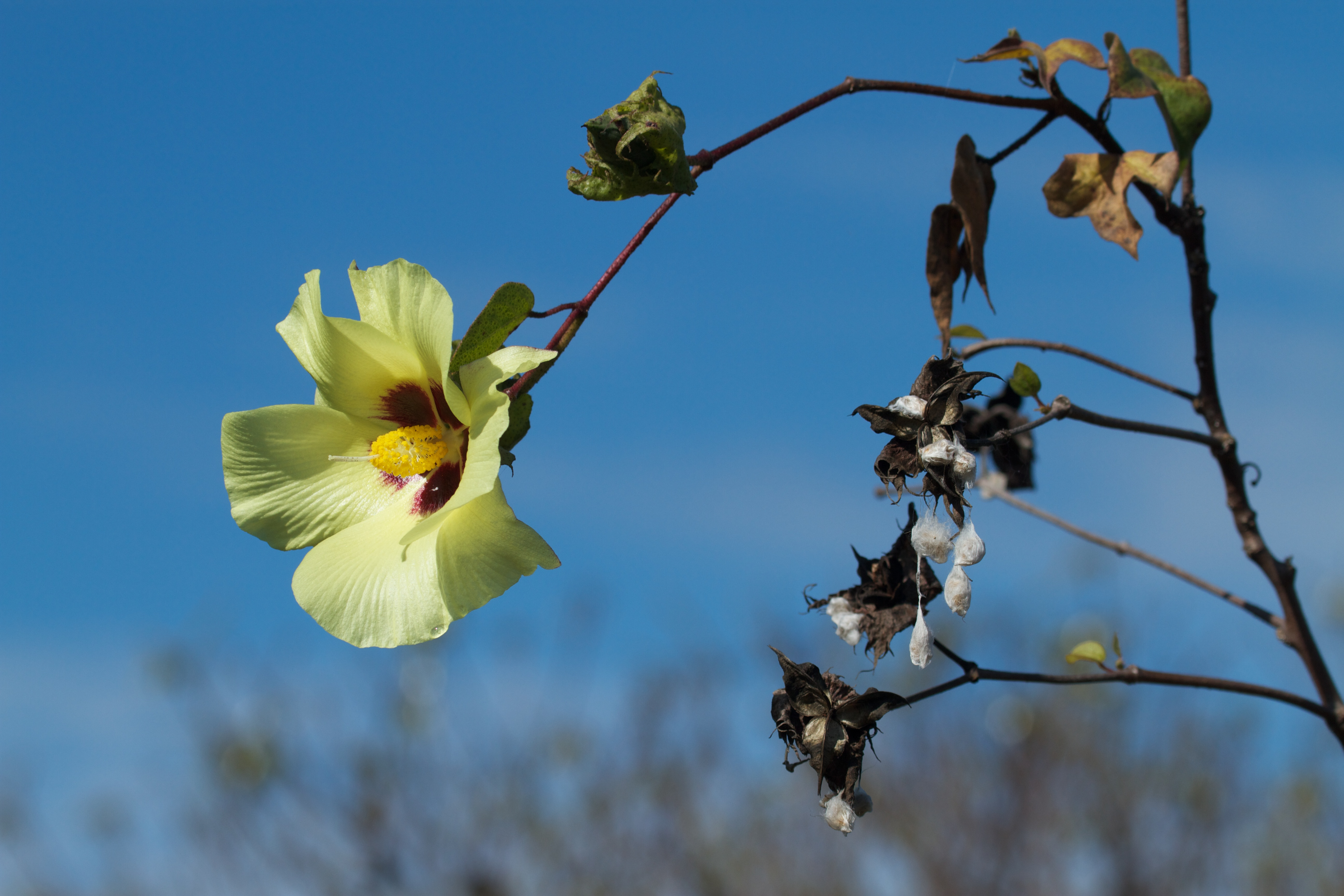 Gossypium barbadense, Galapagos